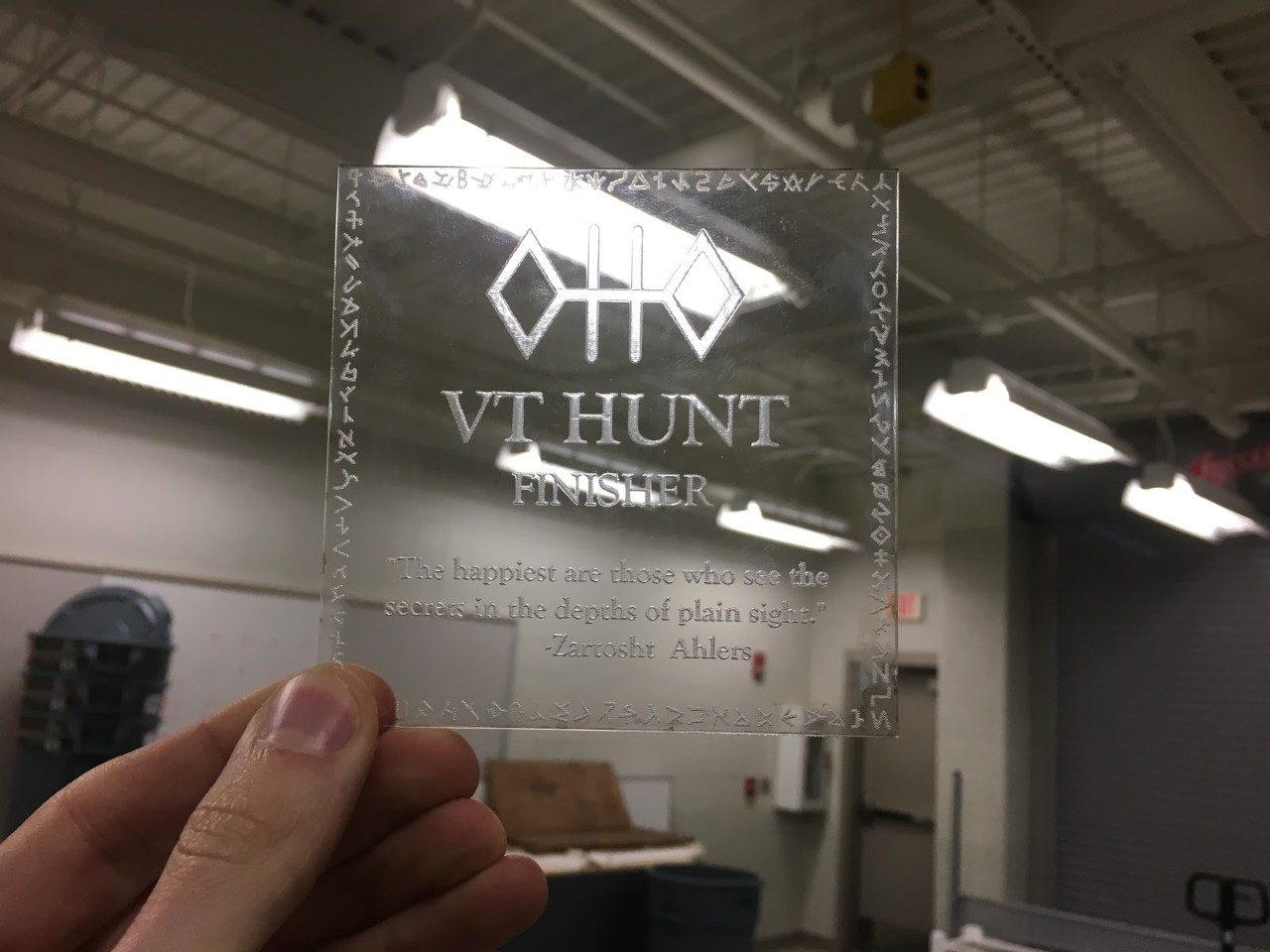 Every year, finishers of the VT Hunt are awarded laser-etched acrylic plaques.